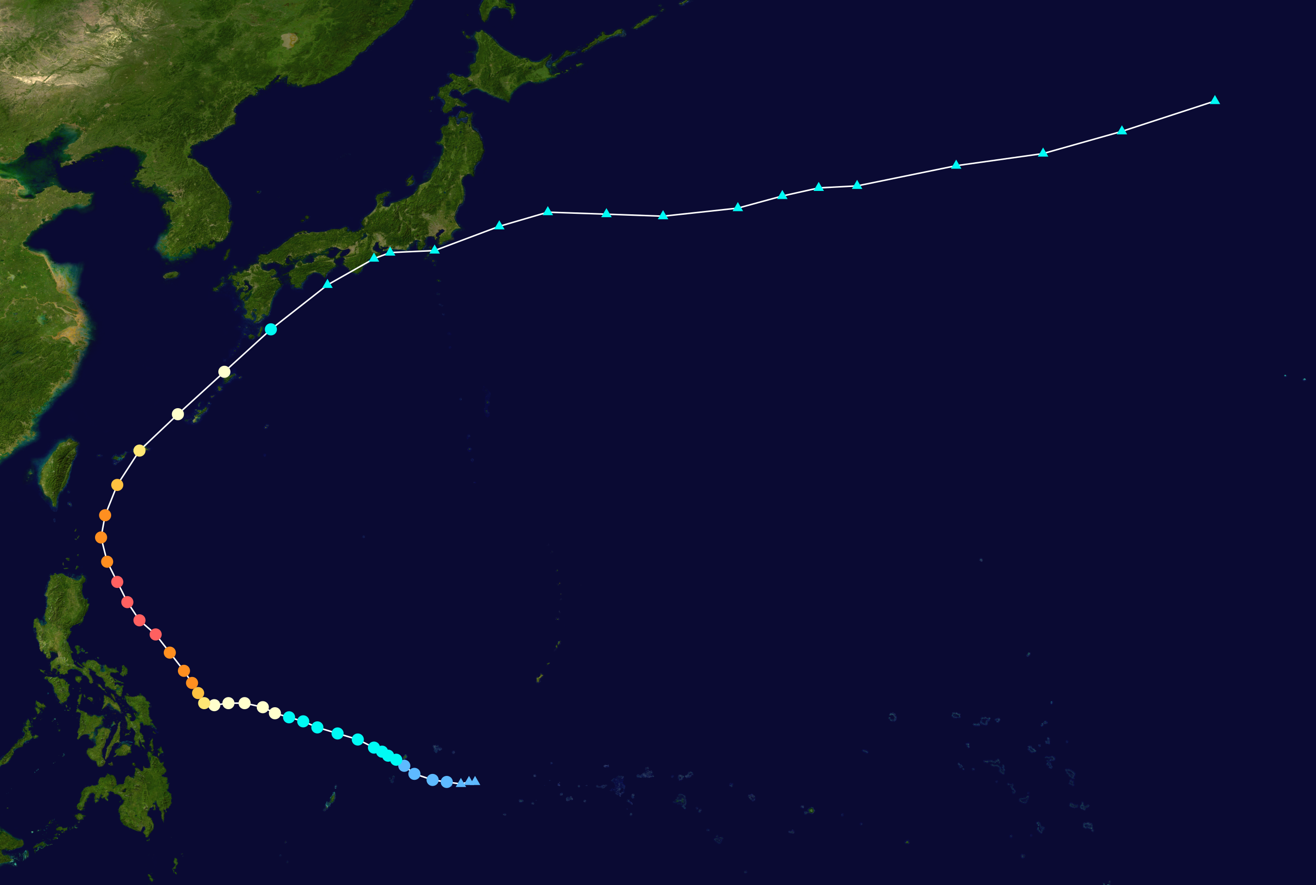 Track map of Typhoon Songda of the 2011 Pacific typhoon season. The points show the location of the storm at 6-hour intervals. The colour represents the storm's maximum sustained wind speeds as classified in the Saffir–Simpson scale (see below), and the shape of the data points represent the nature of the storm, according to the legend below. Saffir–Simpson scale Tropical depression≤38 mph≤62 km/h Category 3111–129 mph178–208 km/h Tropical storm39–73 mph63–118 km/h Category 4130–156 mph209–251 km/h Category 174–95 mph119–153 km/h Category 5≥157 mph≥252 km/h Category 296–110 mph154–177 km/h Unknown Storm type Tropical cyclone Subtropical cyclone Extratropical cyclone / Remnant low / Tropical disturbance / Monsoon depression